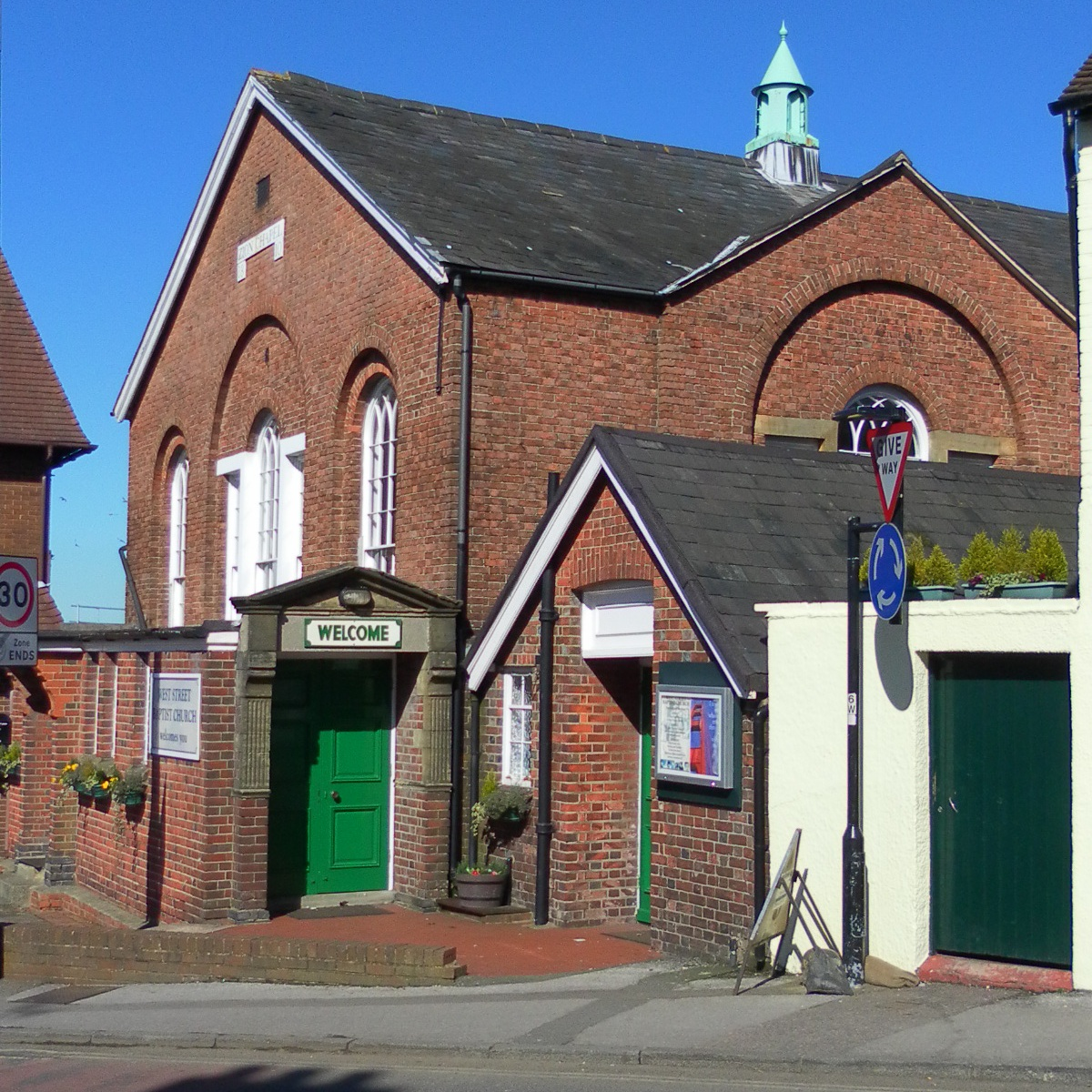 The side elevation of West Street Baptist Church, West Street, East Grinstead, Mid Sussex District, West Sussex, England. Formerly the Zion Chapel (as shown on the legend below the roof), and built in 1810. Listed at Grade II by English Heritage (IoE Code 430884)